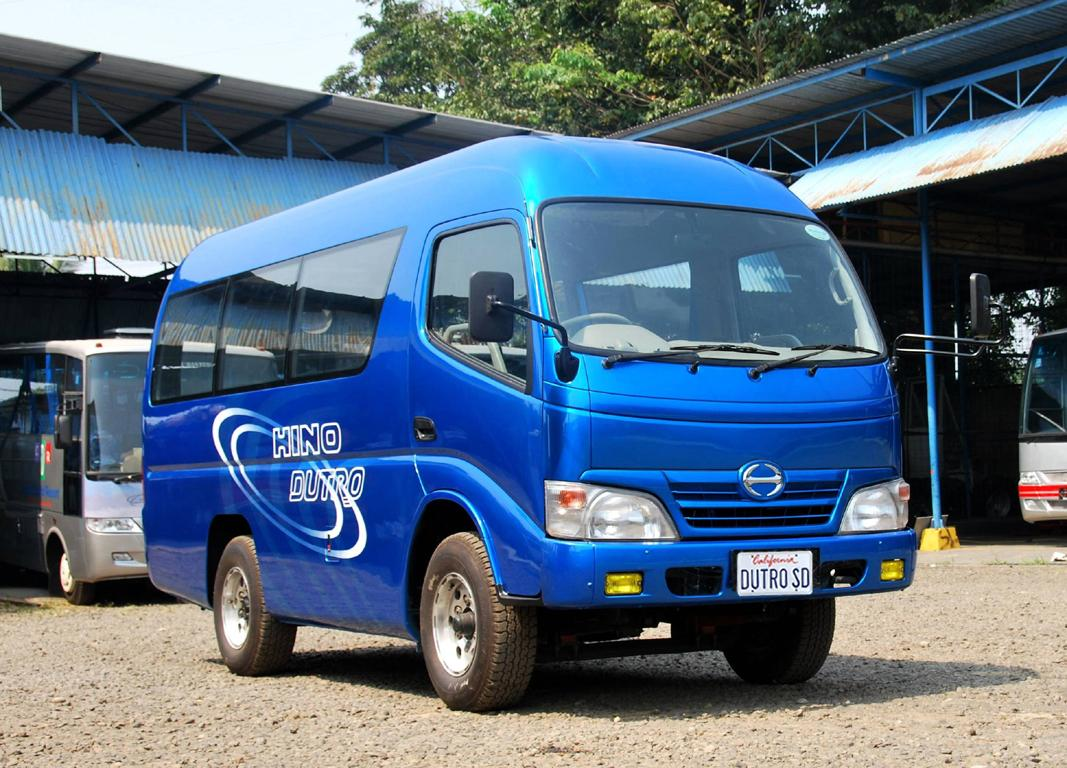 Hino Dutro 110SD Microbus WU302 with fake California license plate for promotional.